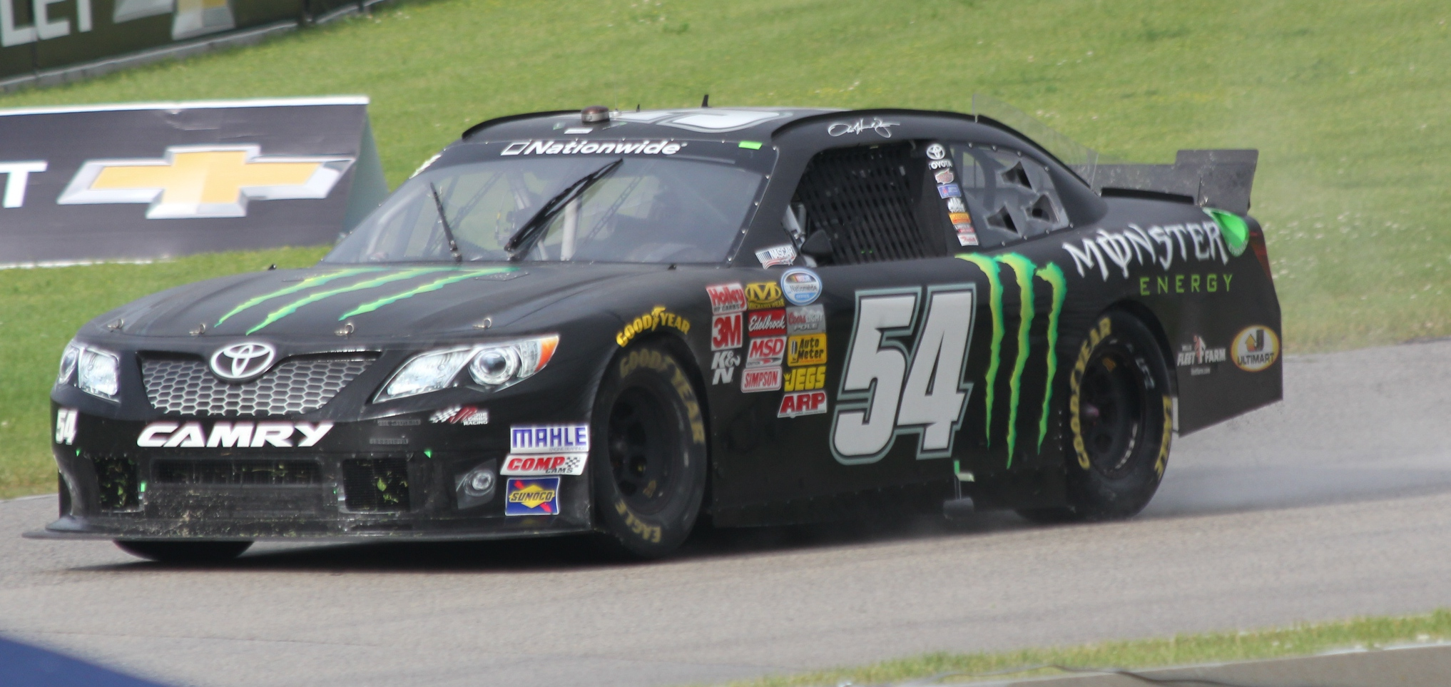 The driver's side of Sam Hornish Nationwide car in the rain during the 2014 Gardner Denver 200 at Road America. Taken between turns 5 and 6.